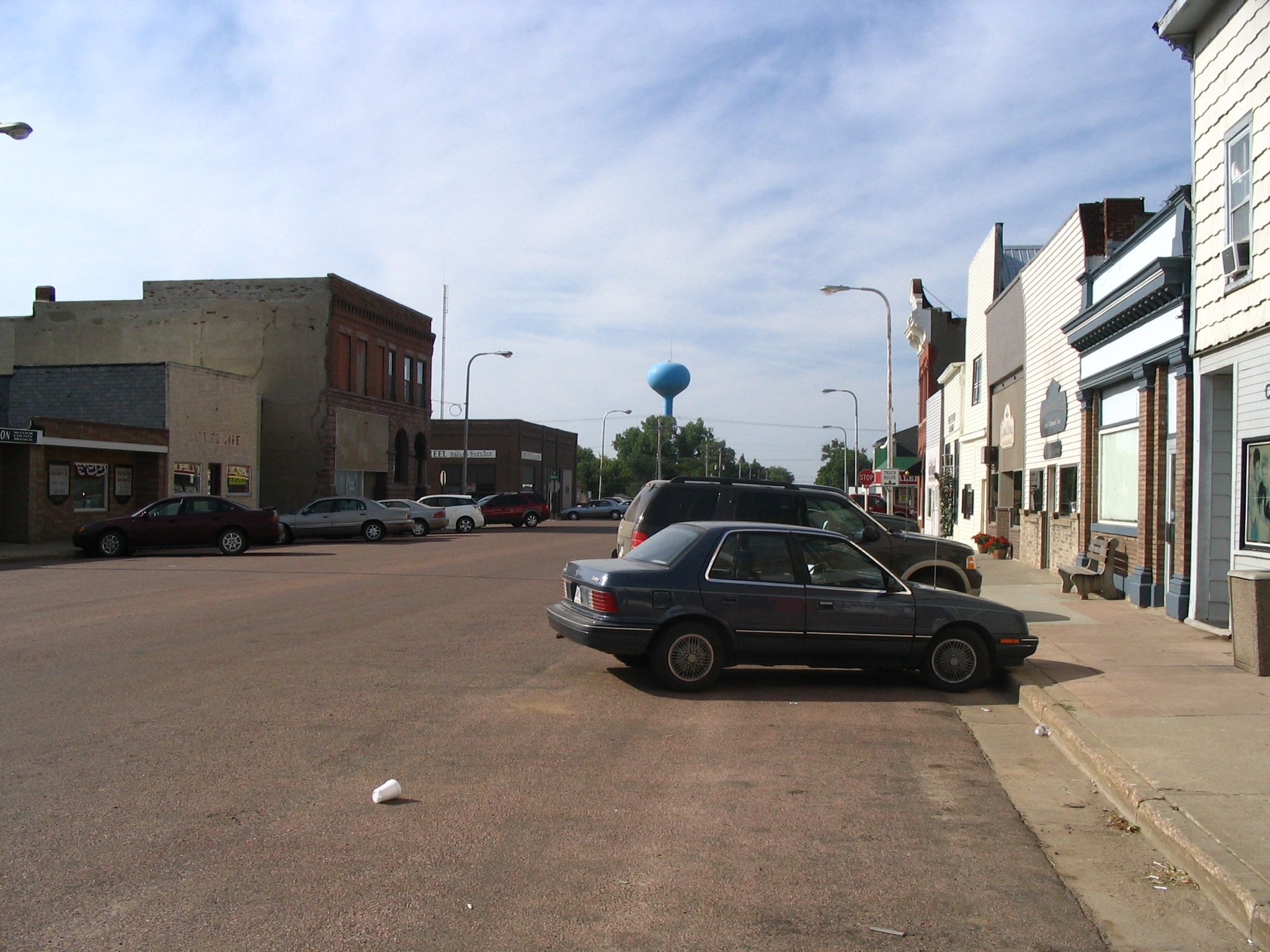 Downtown Salem Historic District, Salem, South Dakota. This area is listed on the National Register of Historic Places.